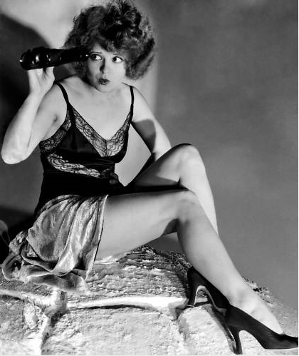 Publicity shot of actress Clara Bow